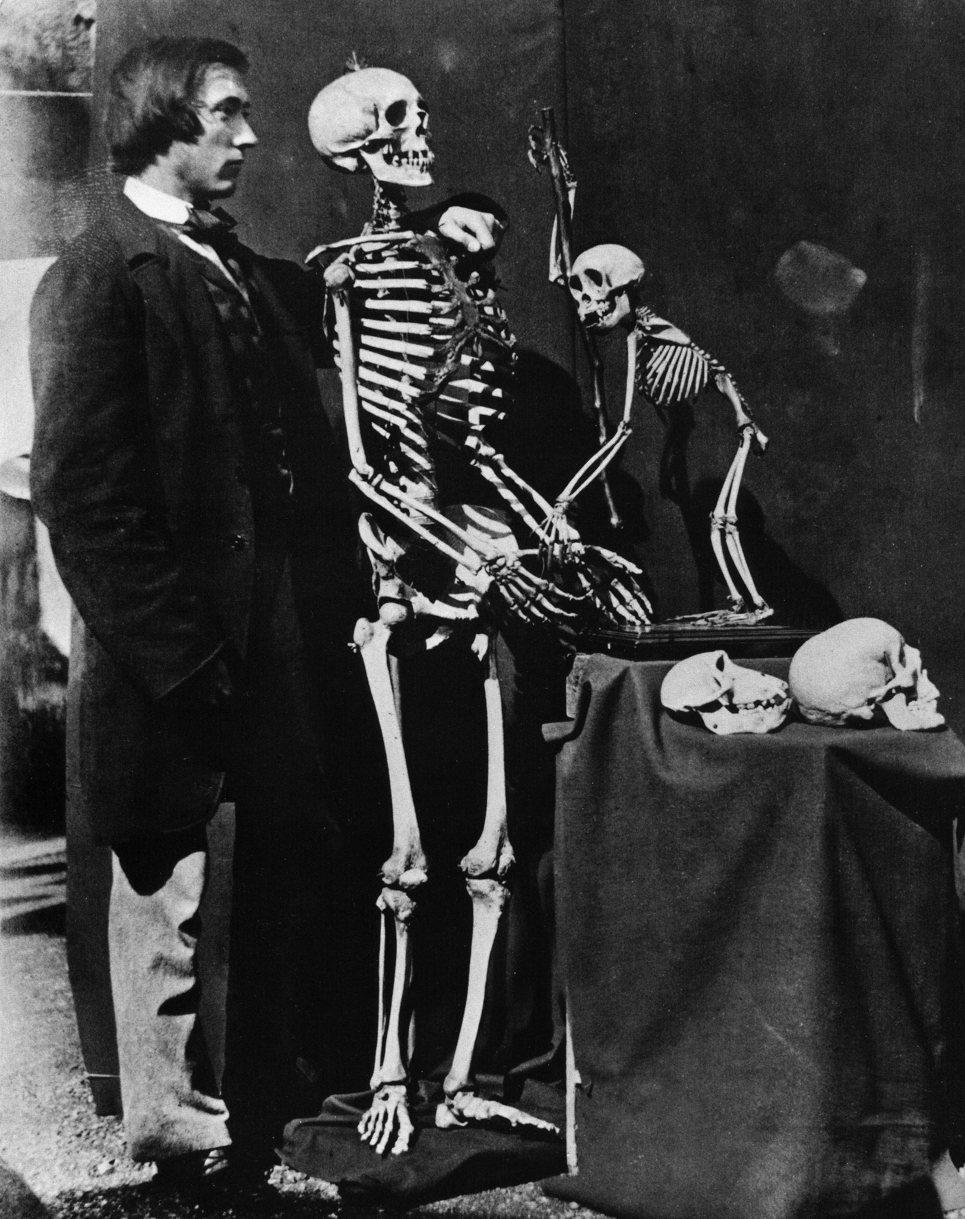 Reginald Southey (1835-1899) with skeletons of human and monkey. Albumen print 16.7 x 13.7 cm. Image number assigned by Dodgson: 0219.